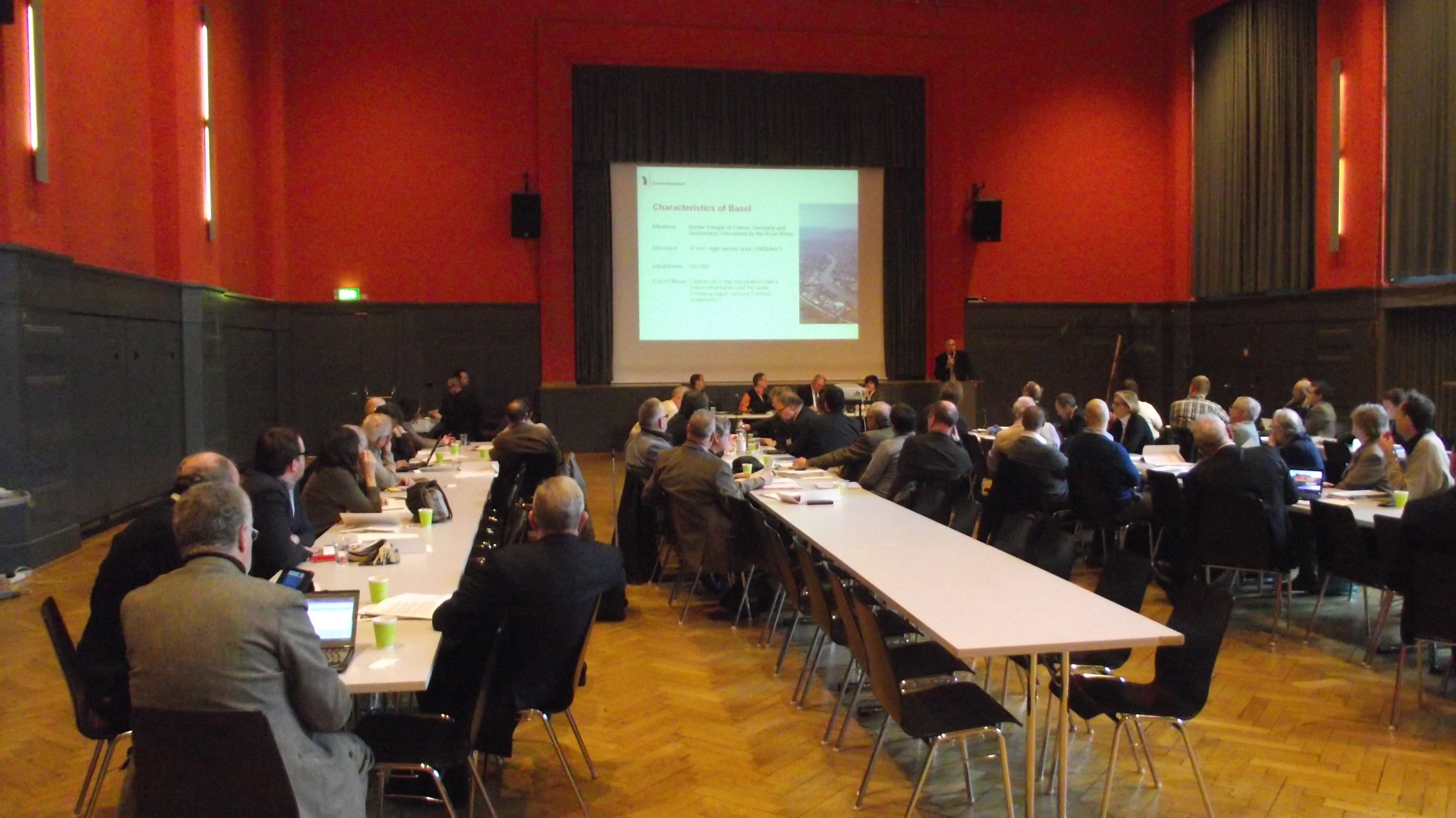 EPF conference in Basel